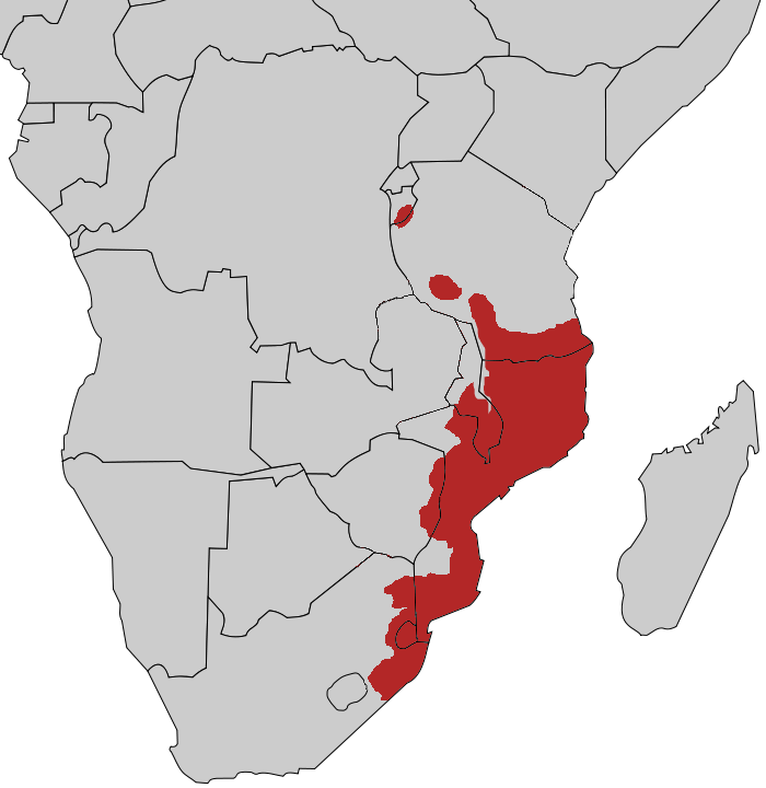 Tauraco livingstonii distribution map.